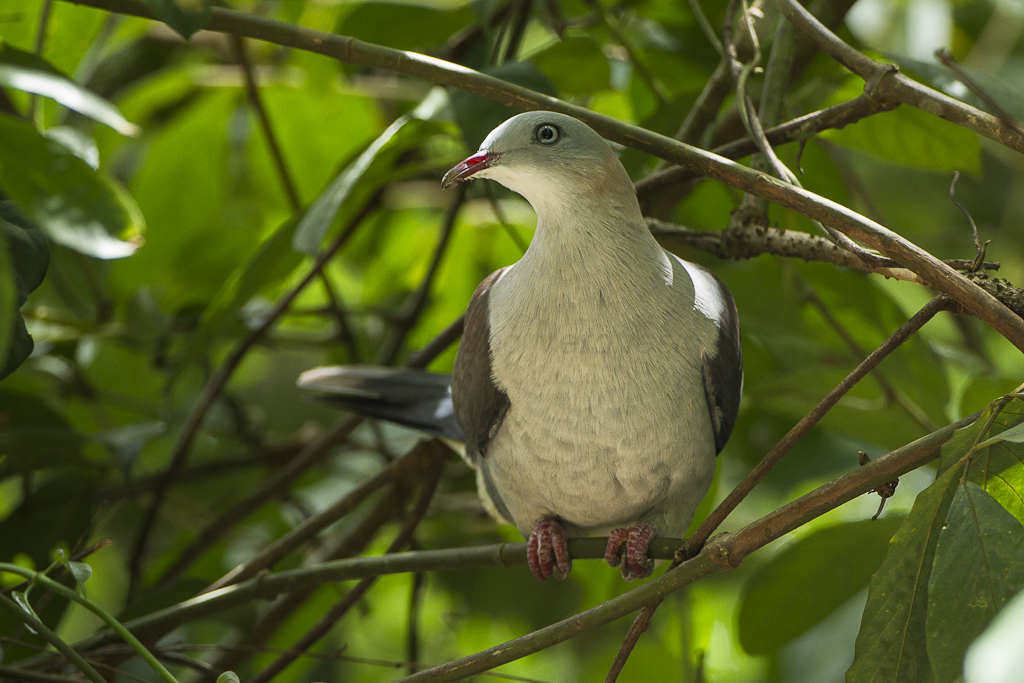 Mountain Imperial Pigeon - Krung Ching - Thailand_S4E4912